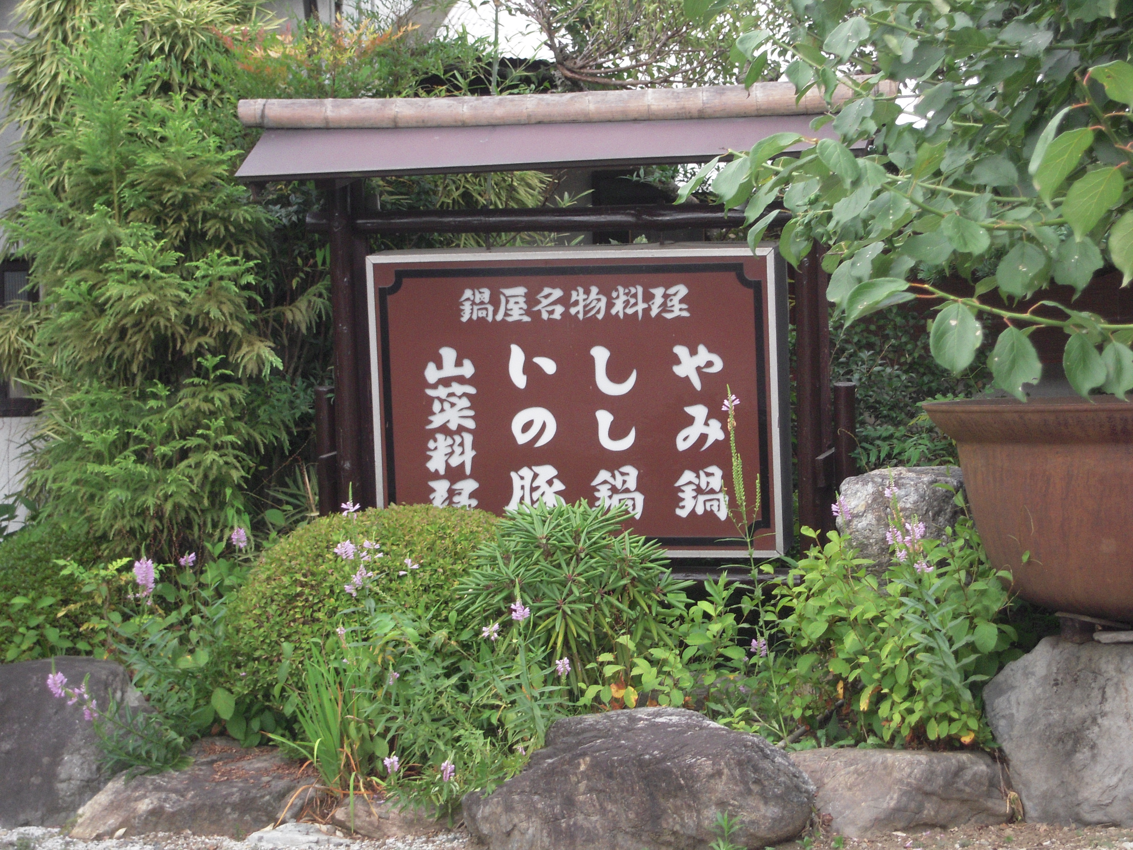 Yaminabe signboard